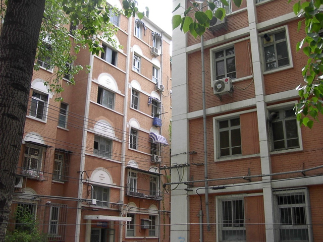 Hepingli. DF08 2003 image.